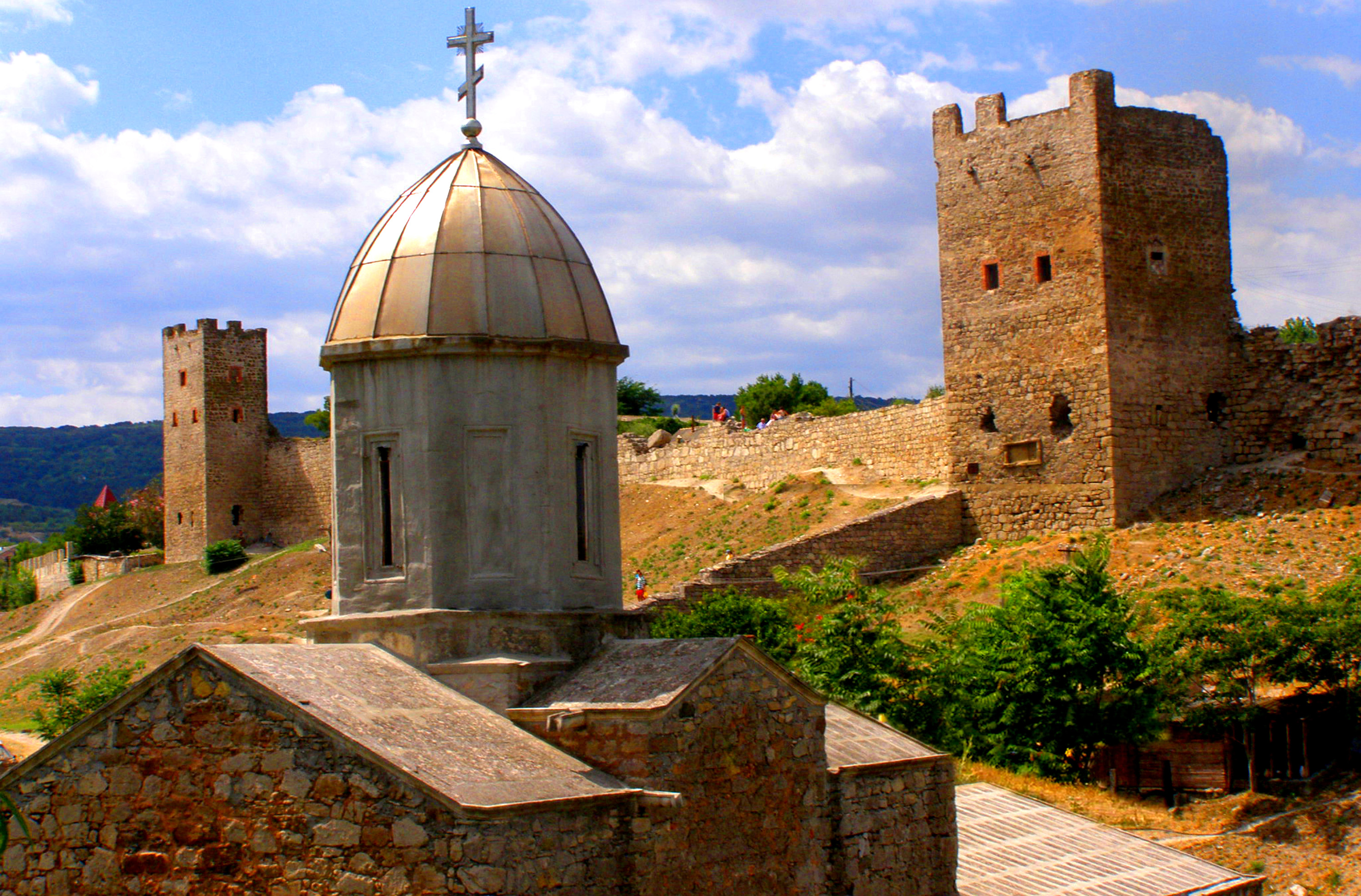 Saint John the Baptist church and Genoese fortress in Feodosia